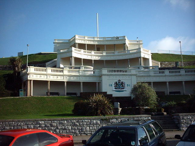 The Colonnade, Plymouth